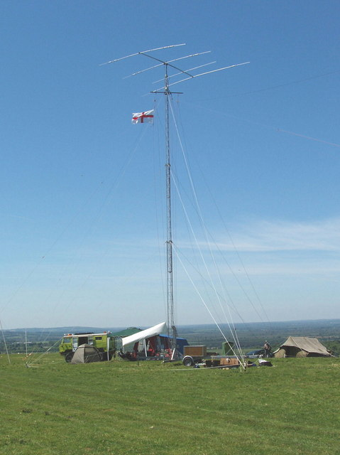 Amateur radio station on Muswell Hill near Brill. The Radio Society of Great Britain organises an annual field day competition. Societies have to set up a temporary radio station, away from their usual premises, and operate it for 24 hours, making as many contacts as possible with other amateur radio stations. The antenna in the photo is from Oxford and District Amateur Radio Society; see their website and the Radio society of Great Britain website .